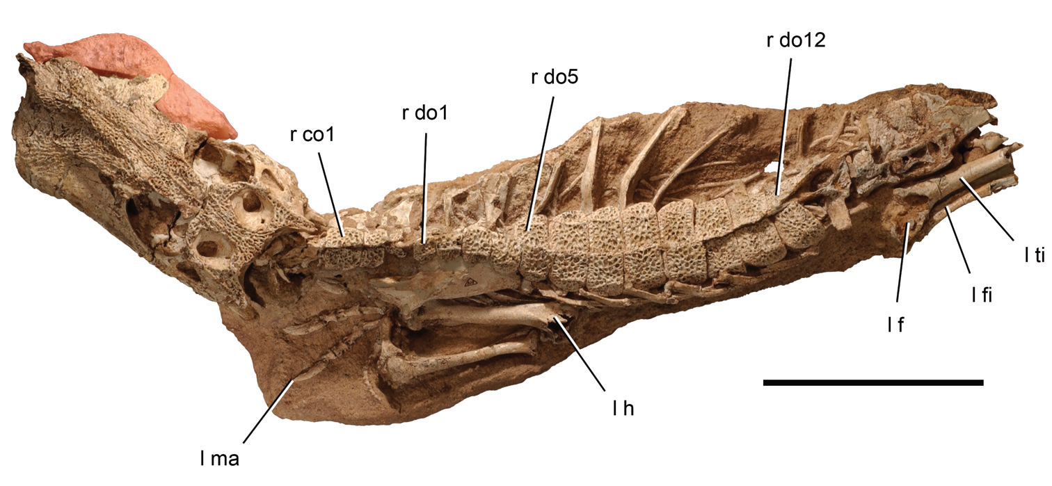 Skeleton of the crocodyliform Anatosuchus minor. Skull and partial postcranial skeleton (MNN GAD17) in dorsal view. Scale bar equals 10 cm. Pink tone indicates restored snout margin. Abbreviations: co1, cervical osteoderm 1; do1, 5, 12, dorsal osteoderm 1, 5, 12; f, femur; fi , fi bula; h, humerus; l, left; ma, manus; r, right; ti, tibia.